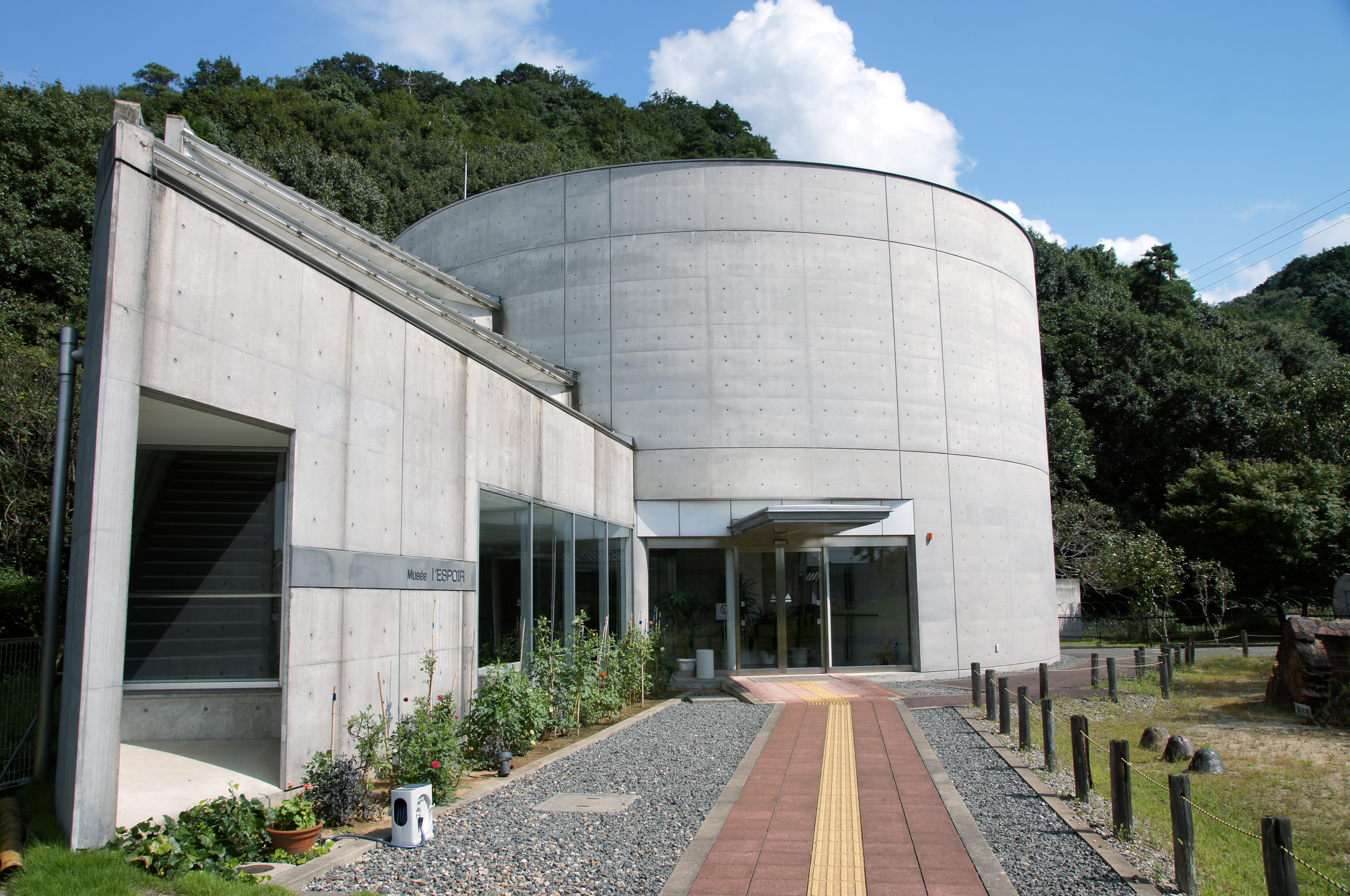 Kyodokan Museum (Folk Museum of Kawanishi) in Kawanishi, Hyogo prefecture, Japan.